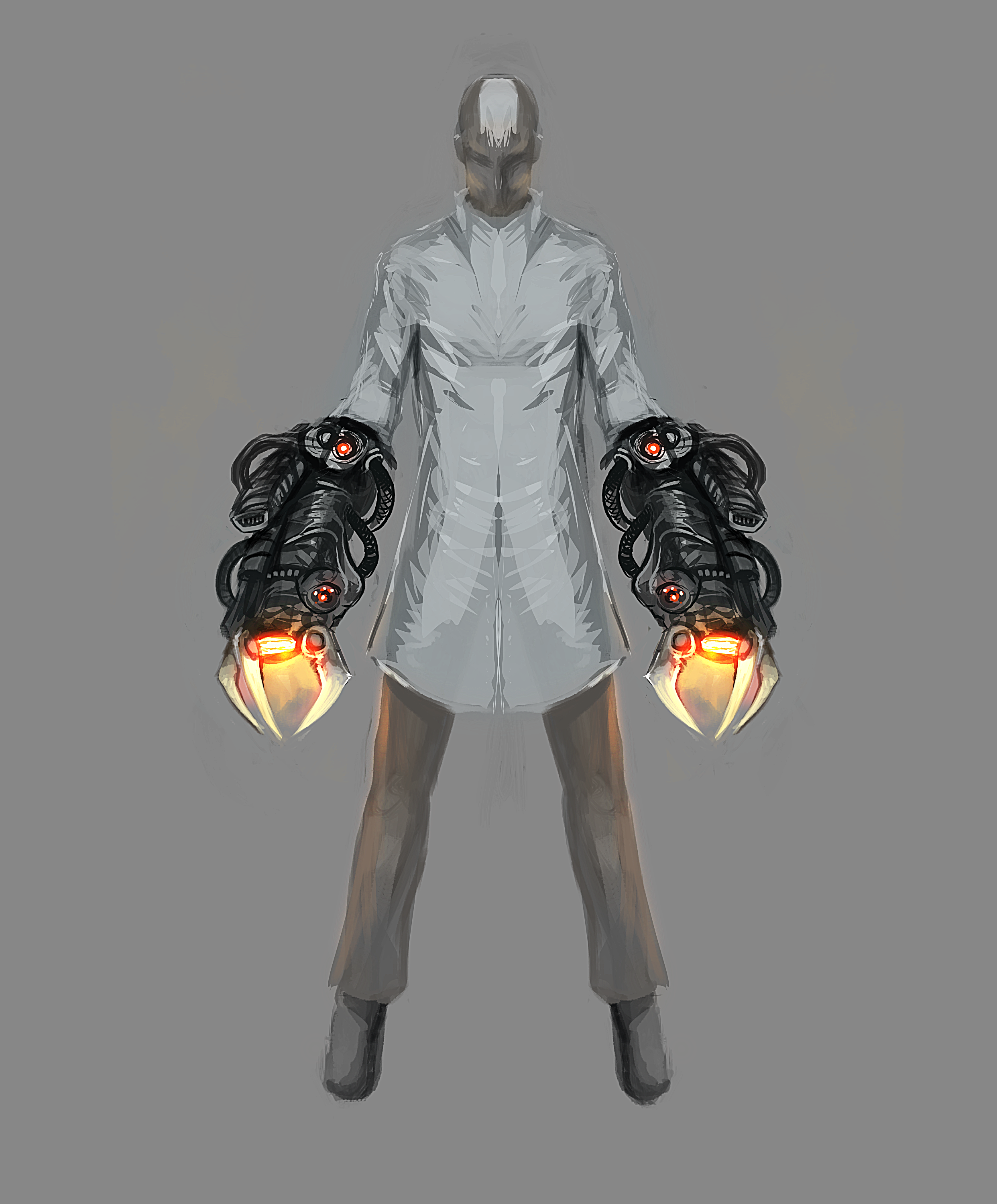 Artwork done by David Revoy for the preproduction of the fourth open movie of the Blender Foundation 'Tears of Steel' ( project Mango ).